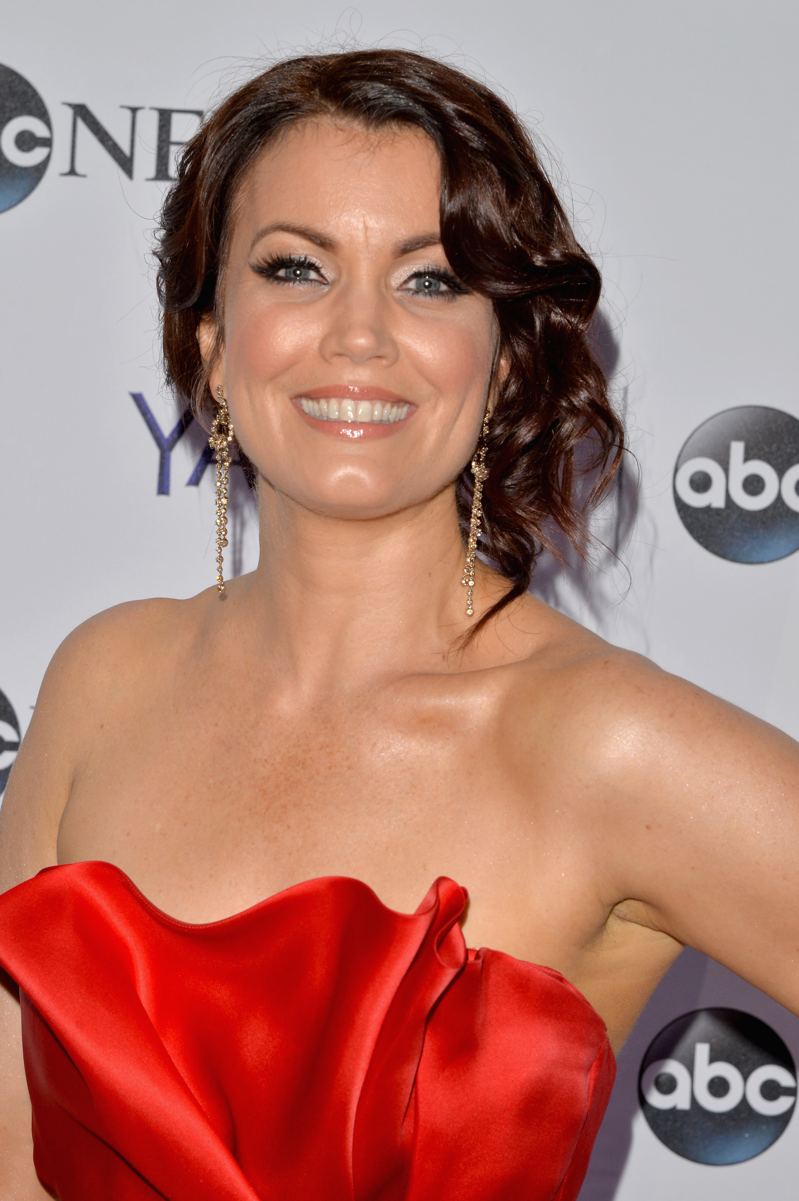 WASHINGTON, DC - MAY 03: Actress Bellamy Young attends the Yahoo News/ABCNews Pre-White House Correspondents' dinner reception pre-party at Washington Hilton on May 3, 2014 in Washington, DC. (Photo by Andrew H. Walker/Getty Images for Yahoo News)